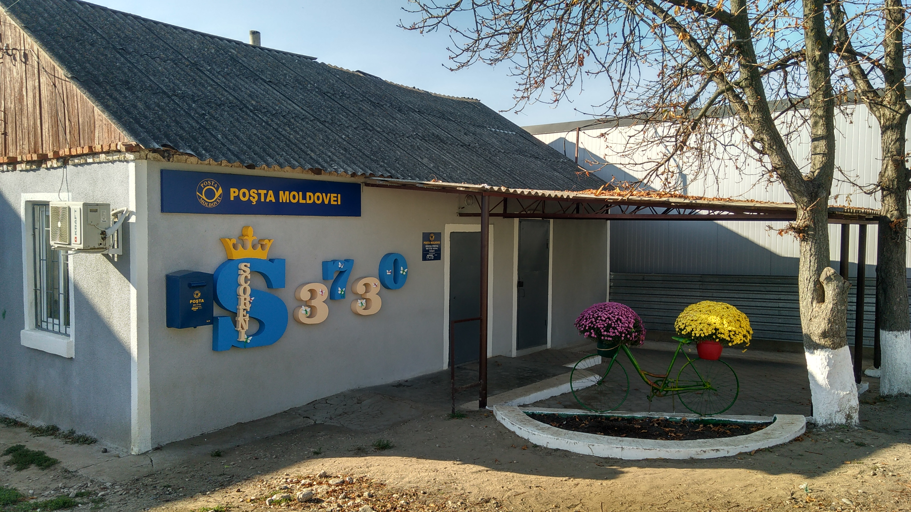 Post office of Scoreni, Strășeni District, Moldova